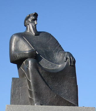 Closeup of the Krešimir Statue in Šibenik, Croatia. Cropped from an existing image.